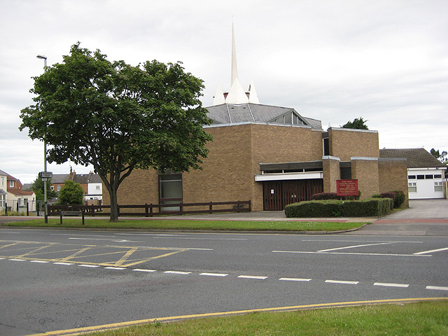 St Thomas More Catholic Church On Princess Elizabeth Way, (A4013).